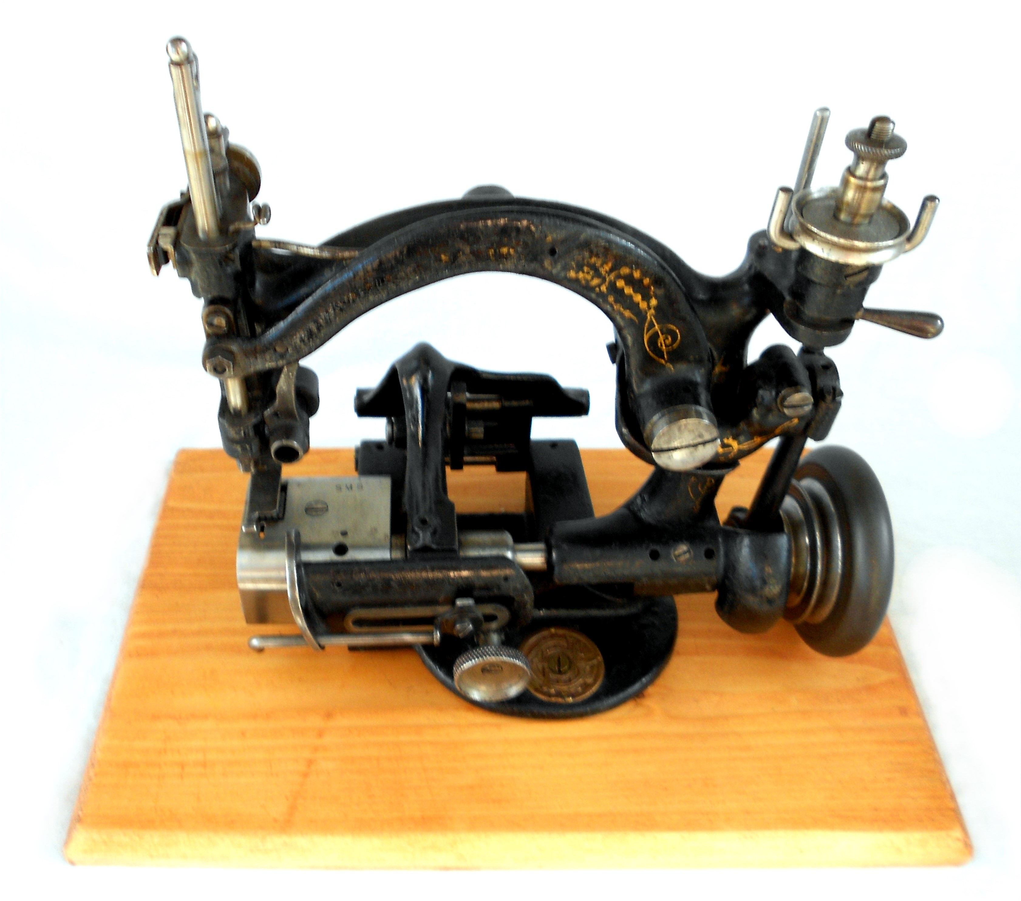 A Wilcox and Gibbs straw hat binder - model 200.